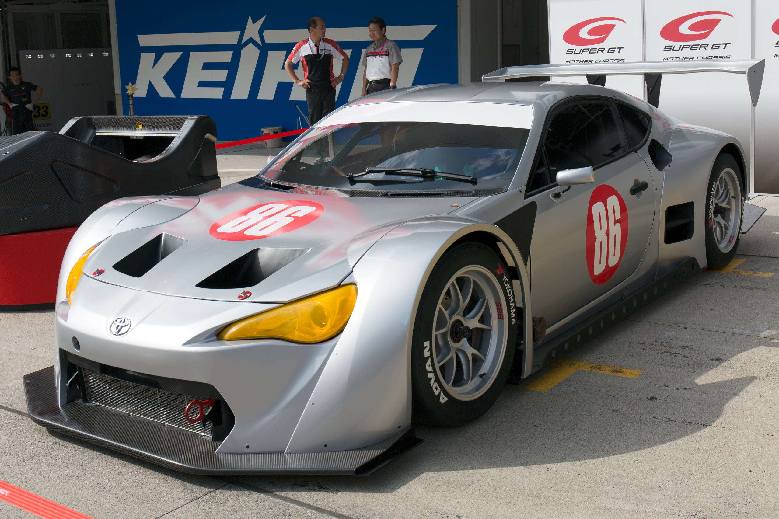 Super GT 2014 Rd.6 Suzuka 1000km: Toyota 86 (Dome M101-86)